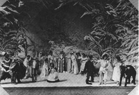 "The snowstorm in the Broadway production of the musical extravaganza The Wizard of Oz, 1903"